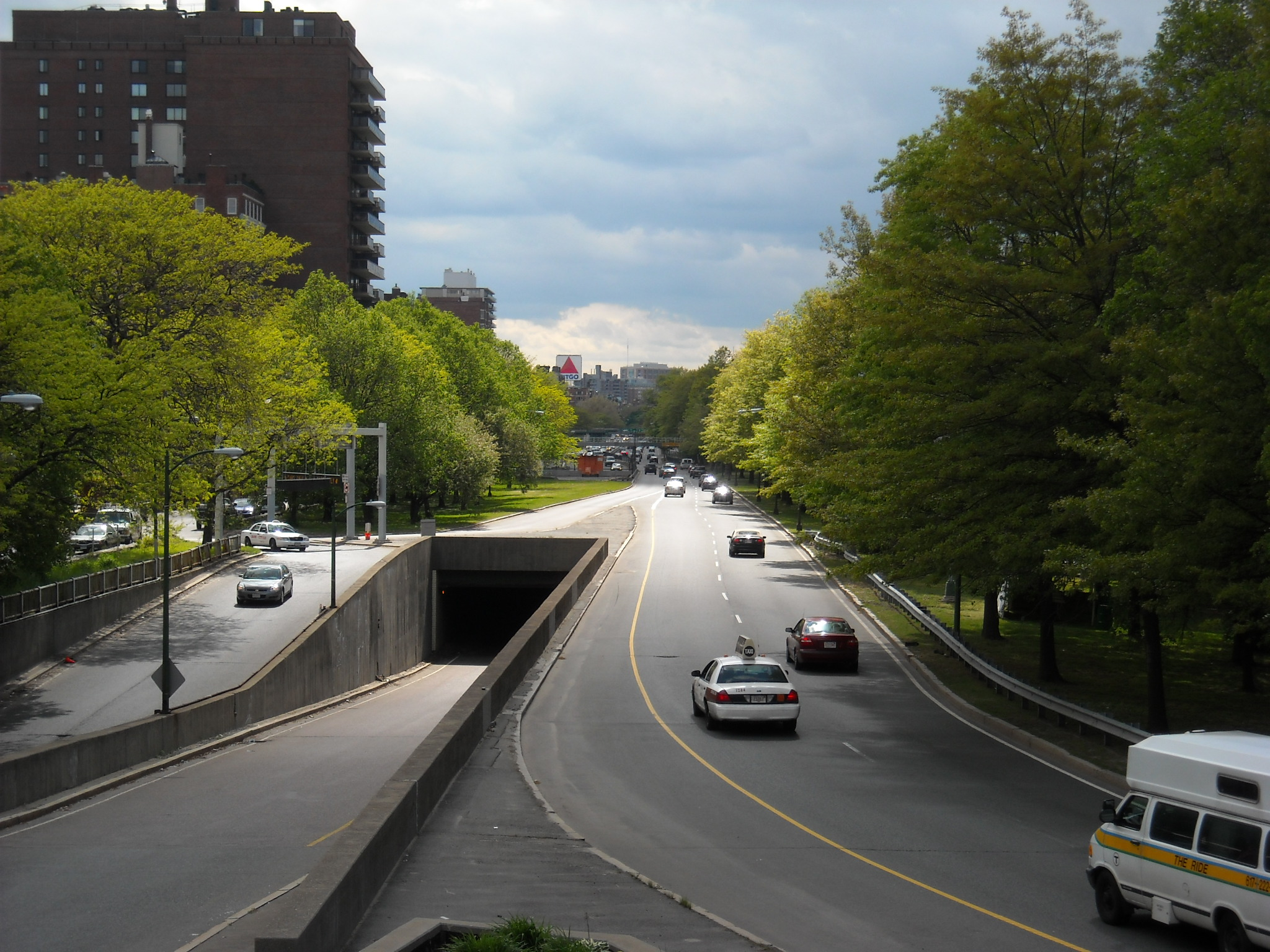 Storrow Drive with the Citgo sign in the background.